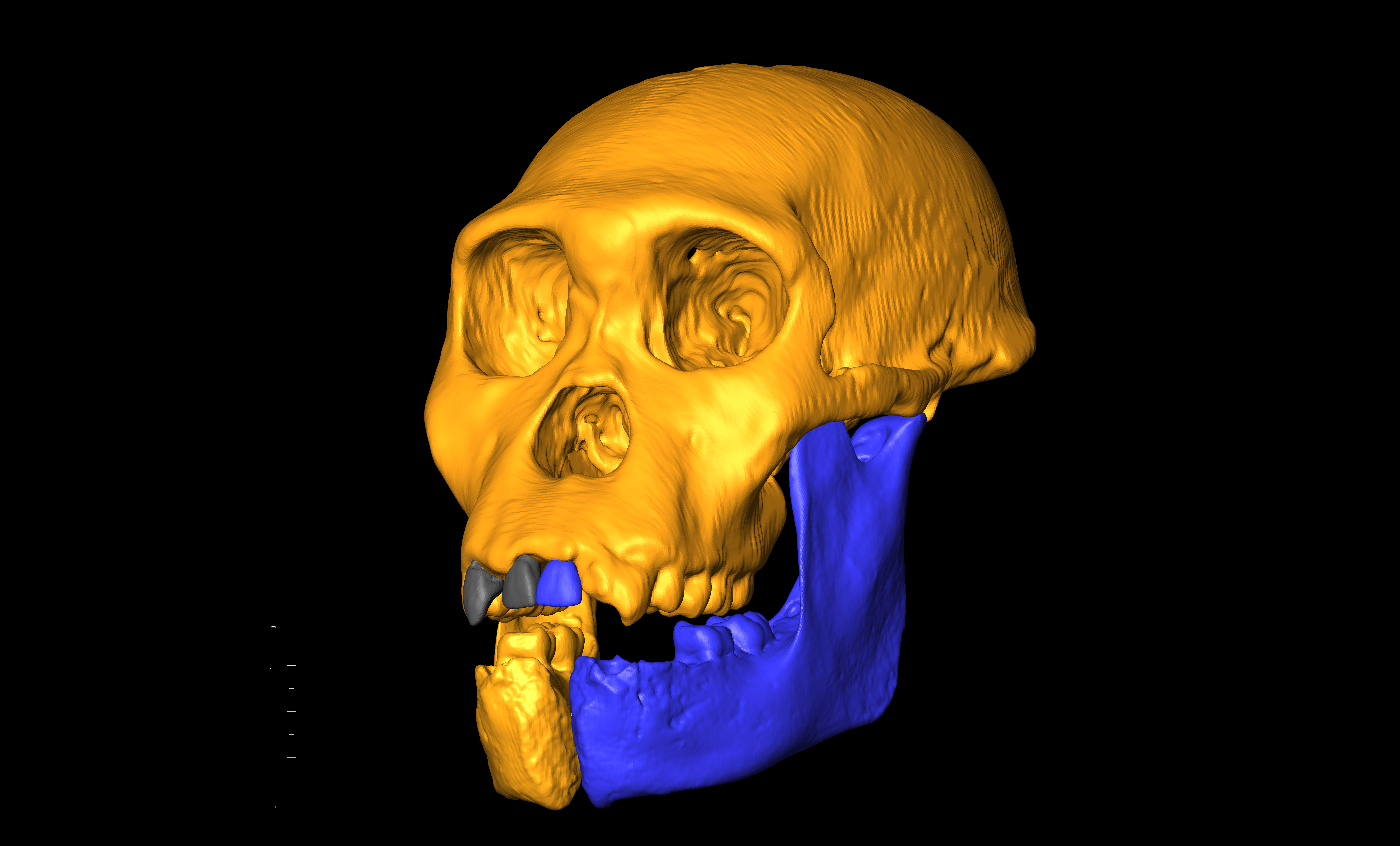 Reconstruction of the MH1 skull, Australopithecus sediba. Reconstruction by Kristian Carlson, courtsey of Lee R. Berger and the University of the Witwatersrand.